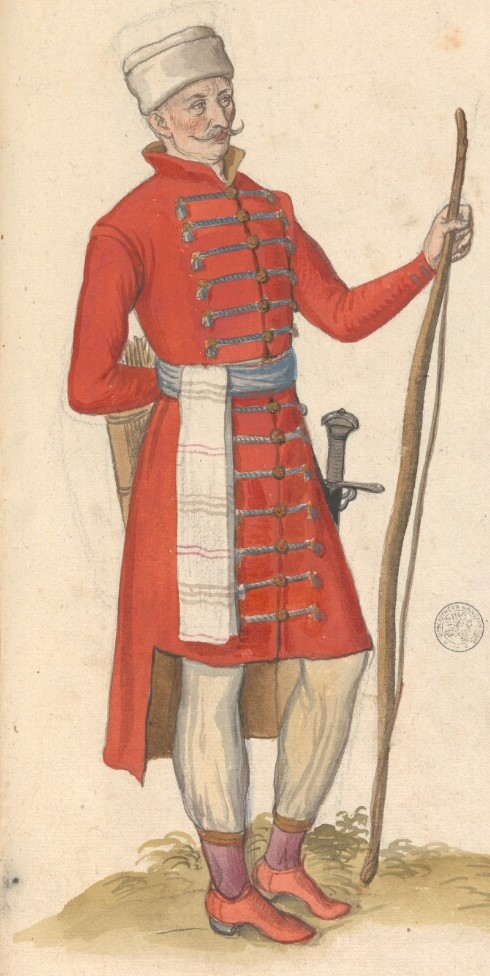 Excerpt from the manuscript "Théâtre de tous les peuples et nations de la terre avec leurs habits et ornemens divers, tant anciens que modernes, diligemment depeints au naturel". Painted by Lucas d'Heere in the 2nd half of the 16th century.